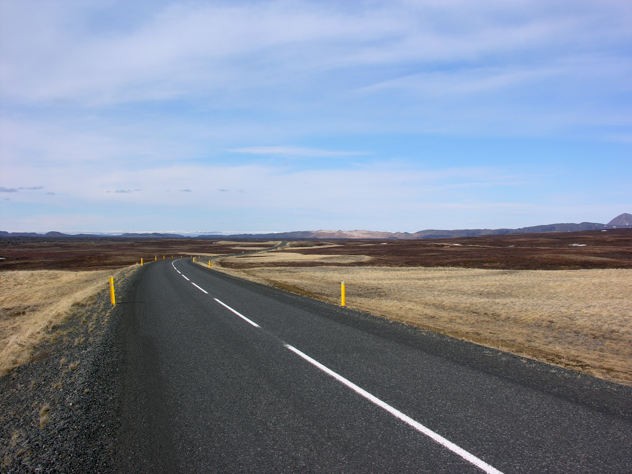 Iceland, along the ring road - Hringvegur - in the Eastern part of Iceland.